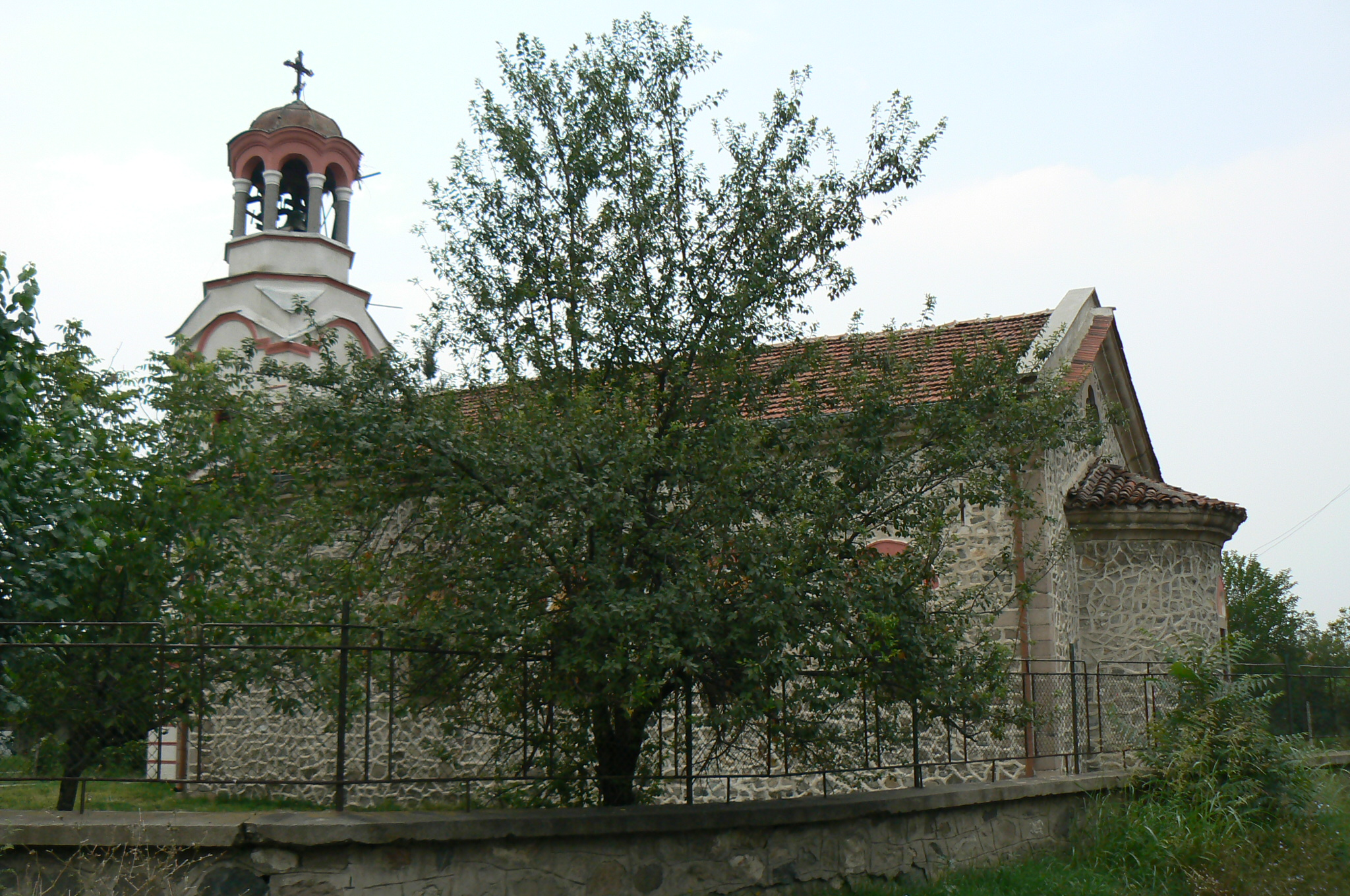 The church in village Bratanitza, Pazardzhik district, Bulgaria